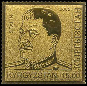 Stamp of Kyrgyzstan, 2005, Scott #268. Political and military leaders of the allied countries which have won the Second World War. I. V. Stalin